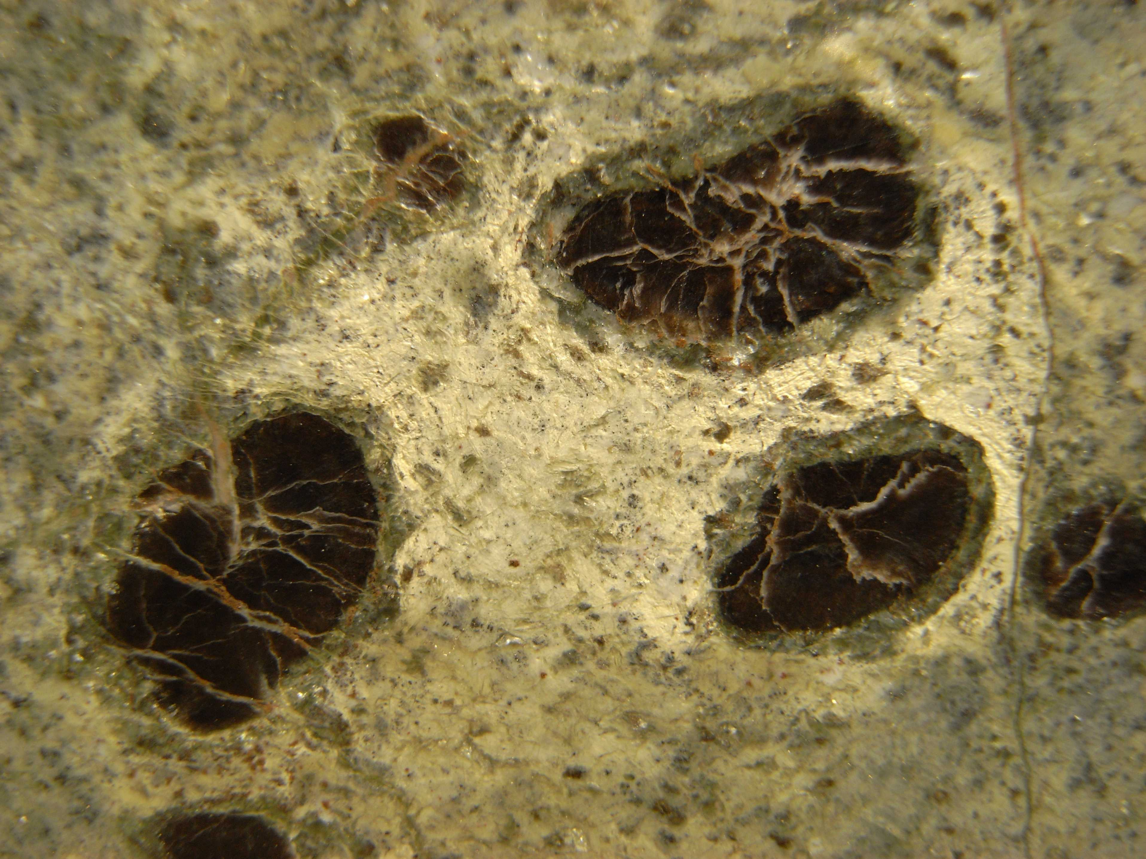 kelyphitic garnet cristalls of Zoeblitz Serpentinite (Saxony, Germany)